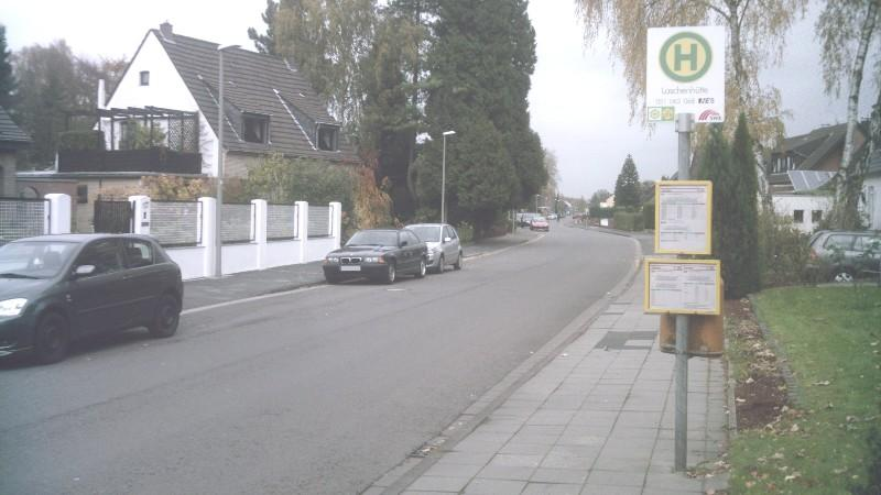 Bus-stop "Laschenhütte" in Forstwald, Krefeld, Germany